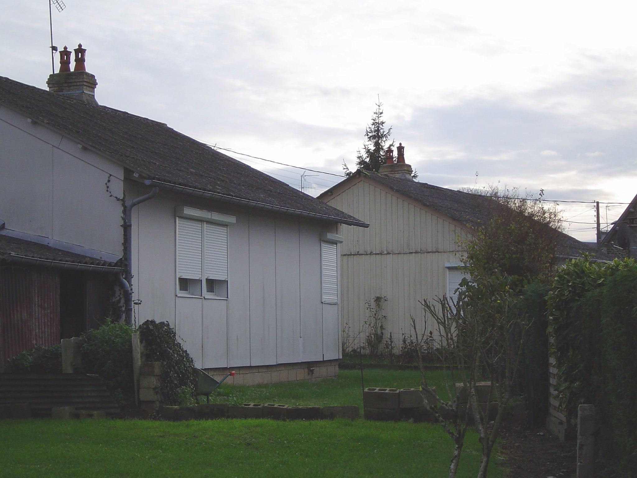 a shed (1950) of Saint-Lô